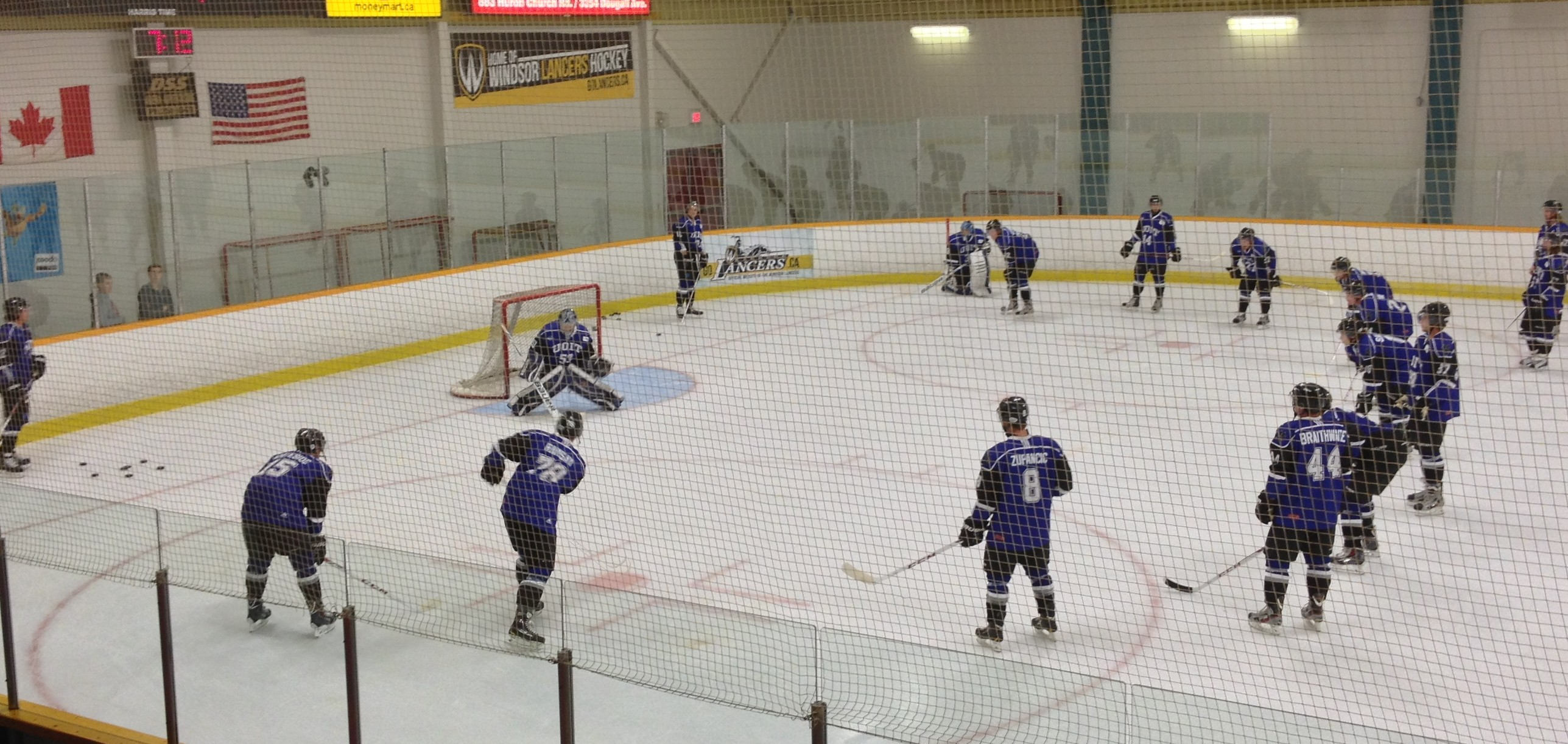 Photo taken by Devan Mighton of CIS men's hockey.